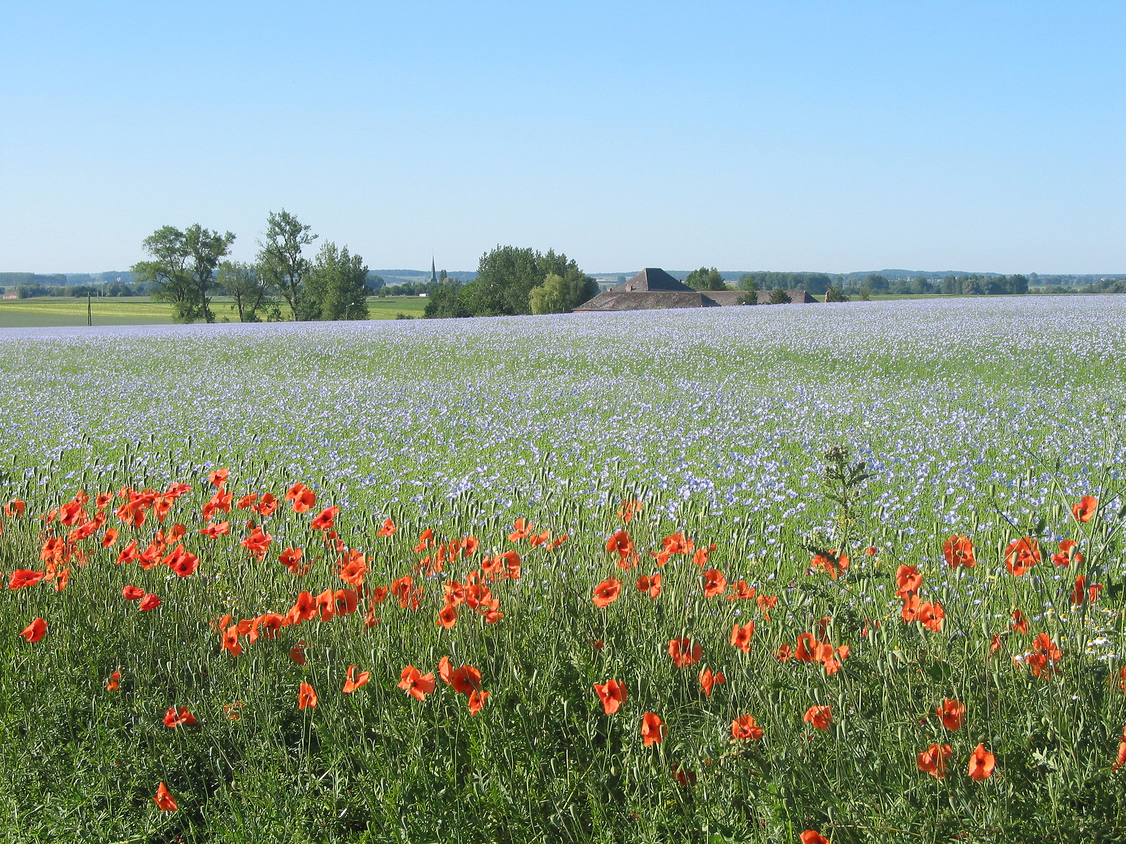 Grand-Reng (Belgium), flowered flax field and poppies in the spring time.